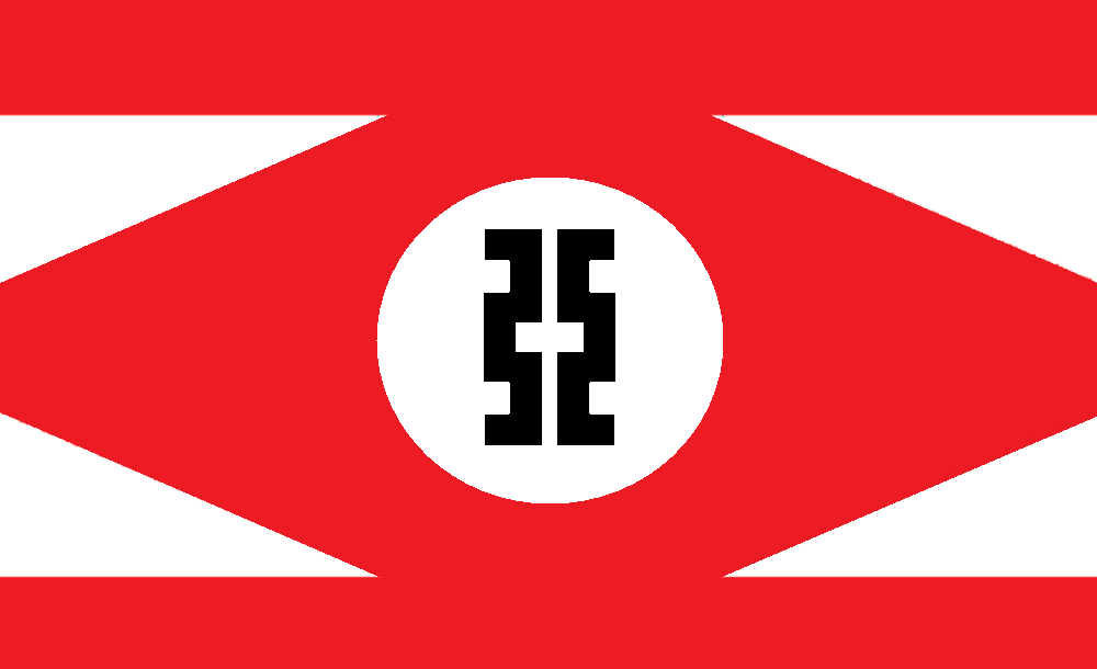 Flag of Shinminkai (新民会)，a pro-japan political organization that founded in December 1937 in occupied North China by support from Japanese Imperial Army. This Flag contains a red stylized Kanji character "亜"（Ah）stands for Asia; a white circle; and in the white circle a black stylized Kanji character "祓"(Harae) in ancient script, stands for purify spirit of Asian people from the influence of Communism.